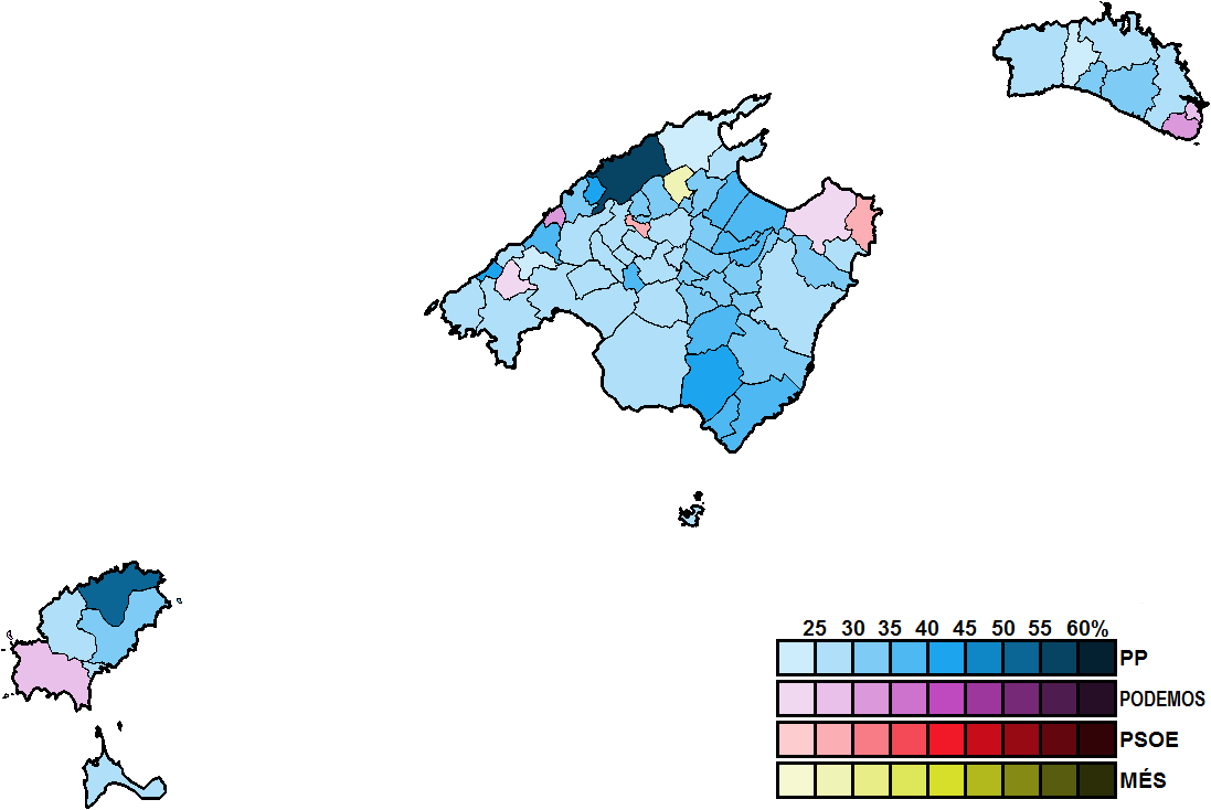 Most-voted party in Balearic Islands municipalities, showing vote share obtained, in the Spanish general election, 2015.